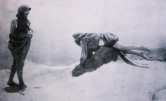 Late 19th century fertility rites at the Portakar, Southern Armenia, South-West Asia.